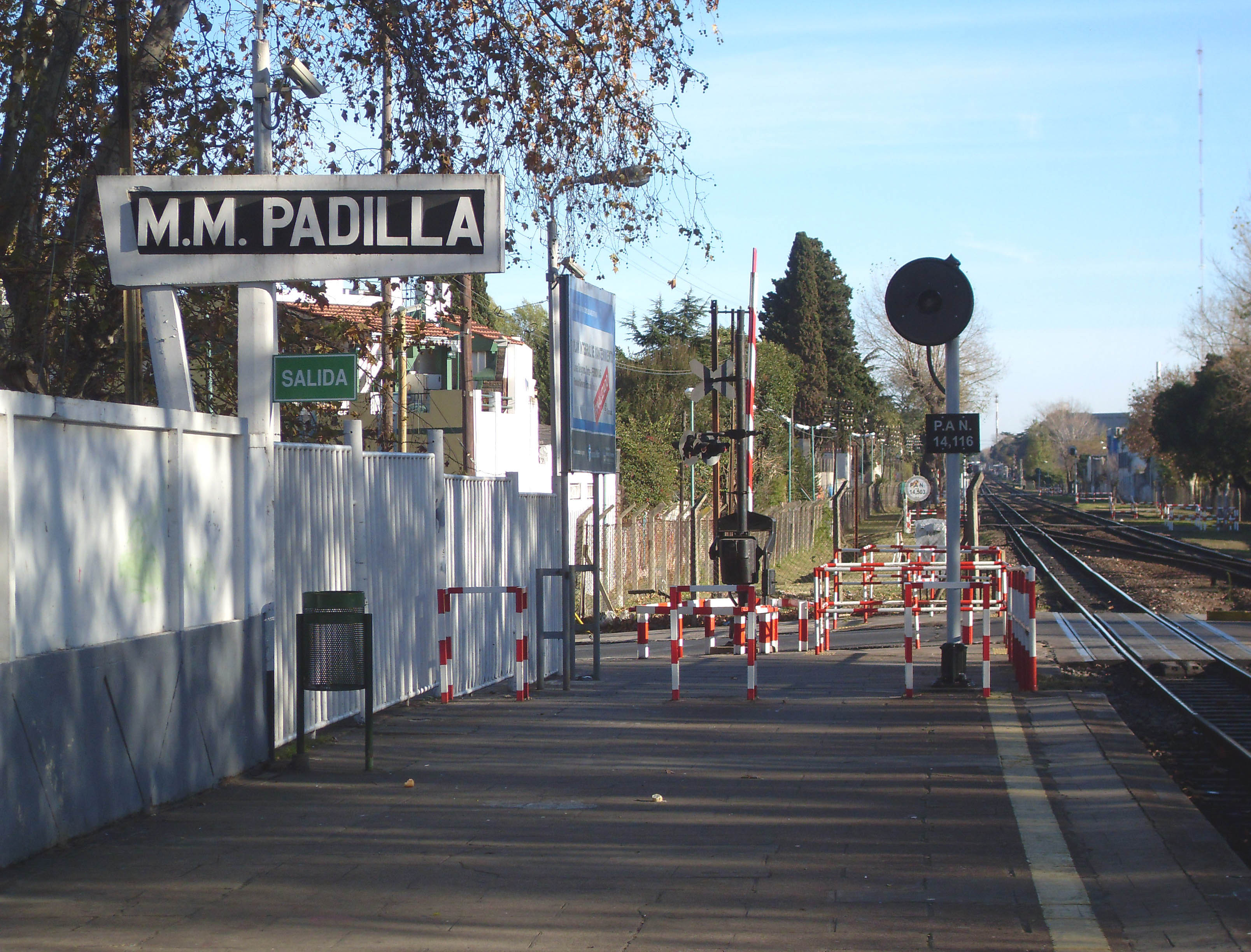 Padilla train station and the end of the west-side platform, few meters from the Lavalle street level crossing. From left to right, the station sign (built in the 1960s, engraved in stone), warning signs, and searchlight type signal by GRS.